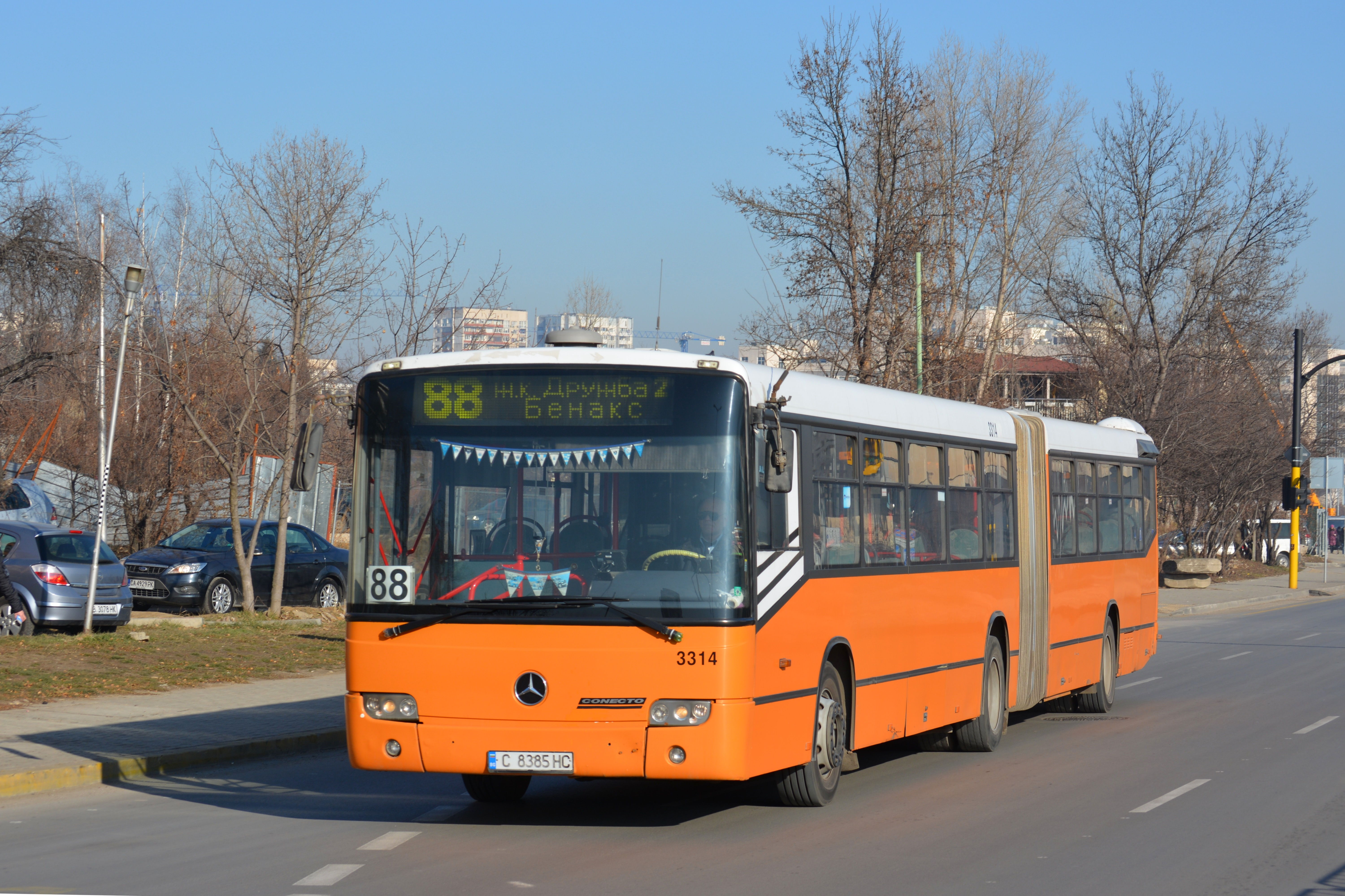 A Mercedes O345 Conecto G bus in Sofia on line 88.